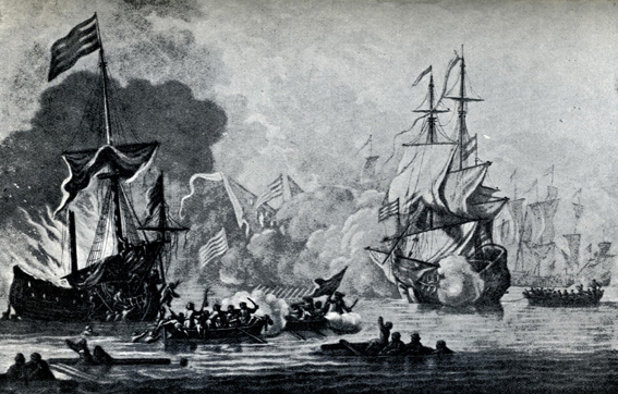 This image appears in William Laird Clowes (ed.): The Royal Navy. A History From the Earliest Times to the Present, Vol. 2, London 1898, where it is described, according to its caption, as HMS Mary Rose (48 guns), Captain John Kempthorne, in a battle with seven Algerine pirate ships between Salé and Tangier, December 8th, 1669. Clowes states that the painting is ascribed to van de Velde the younger. In reality the painting's creator and subject are both uncertain; the action it depicts is likely that of Morgan Kempthorne of HMS Kingfisher (1675) fame, (see Mariner's mirror volume 12, 1926) and the painting upon which the engraver, Elisha Kirkall, based the engraving may be a copy by Cornelius van de Velde of one by van de Velde the younger.